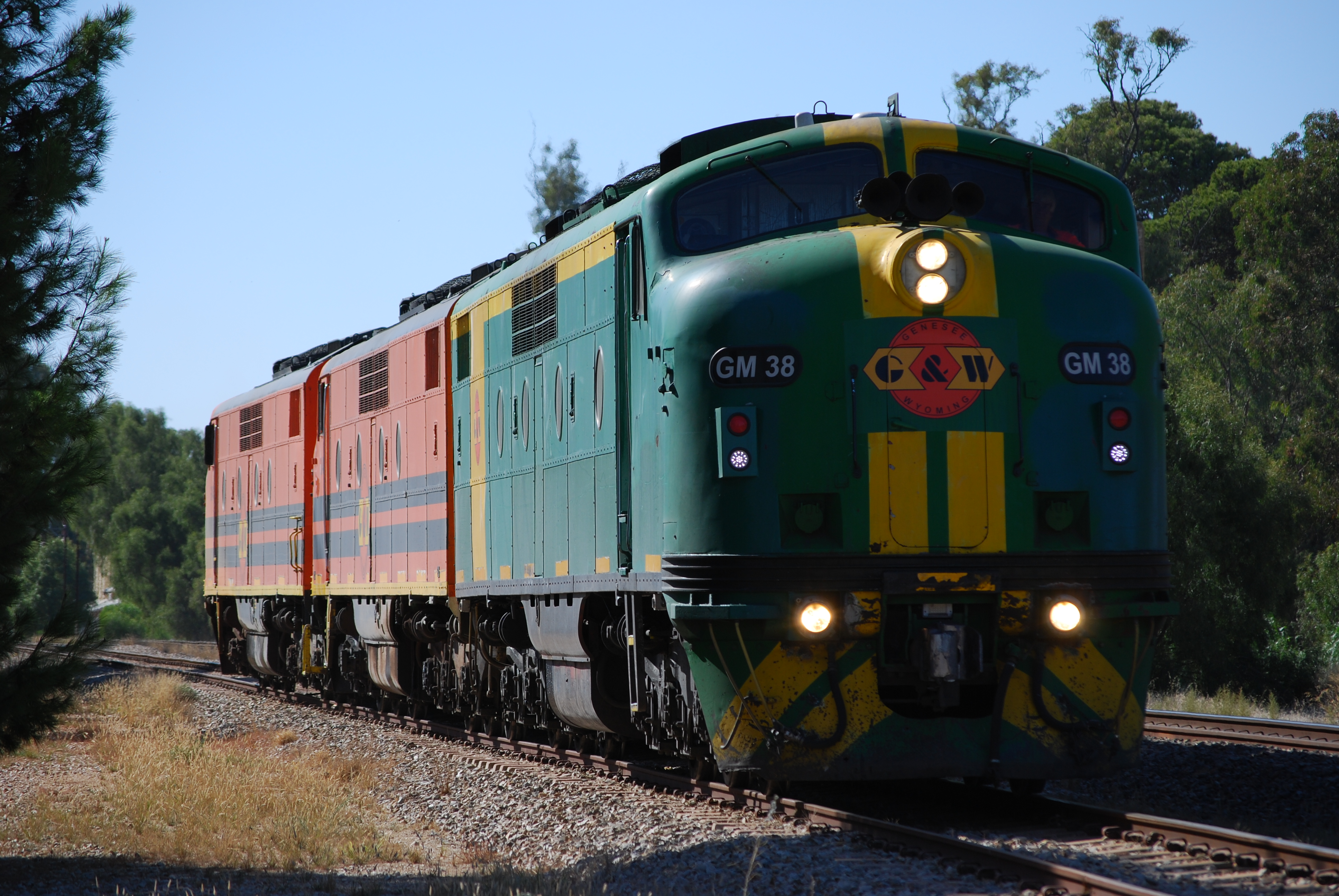 GM38 diesel train - about to be moving barley, Clare valley, south australia